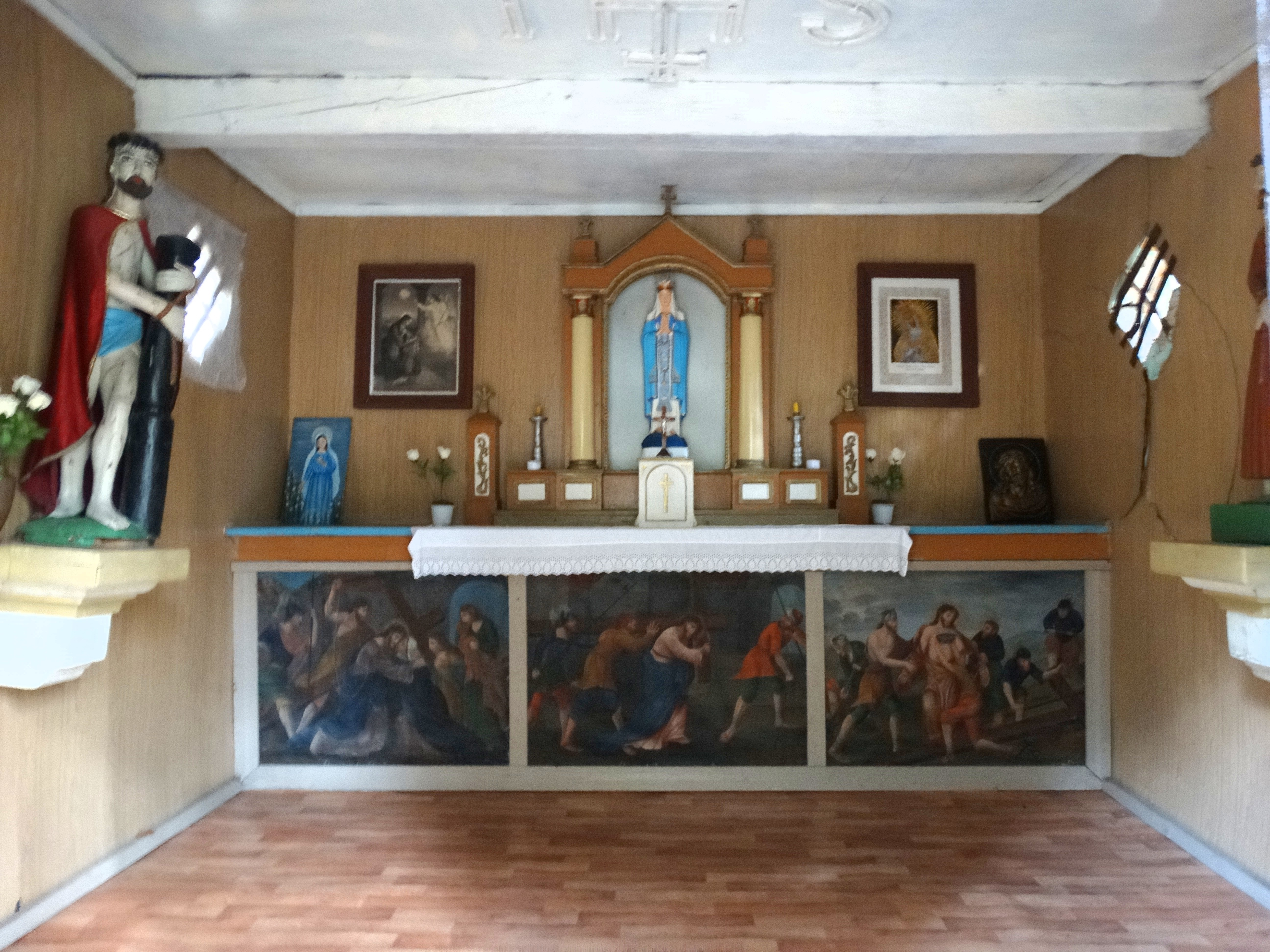 Šaltinis chapel in Višakio Rūda, Kazlų Rūda municipality, Lithuania